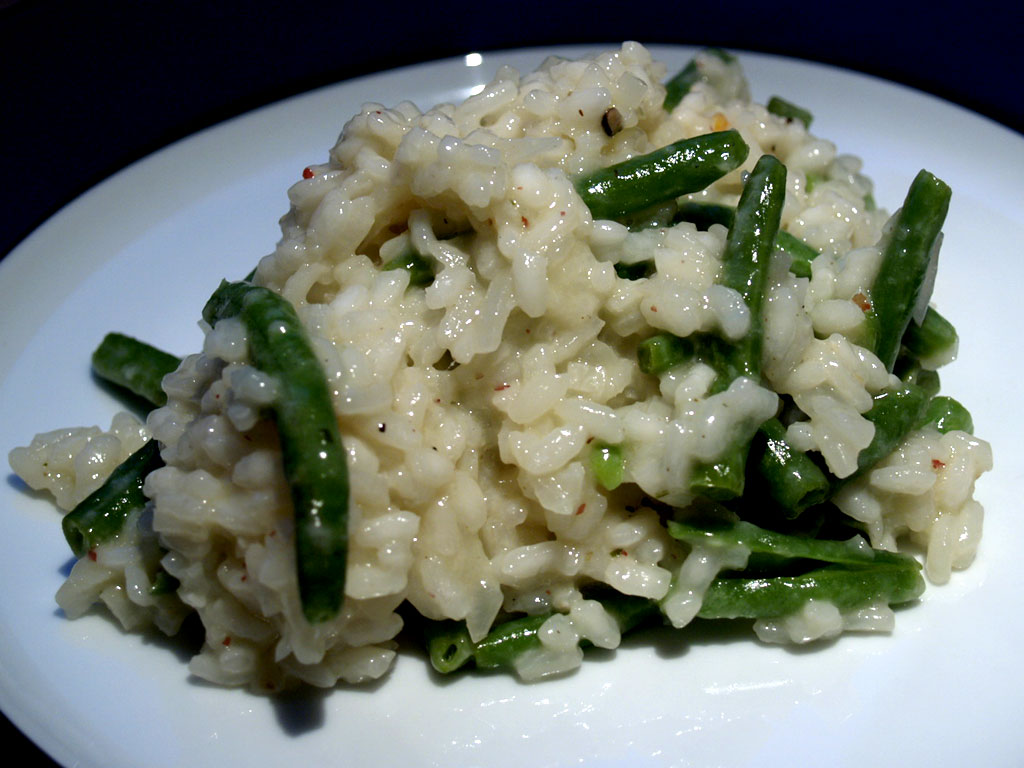 Risotto with green beans